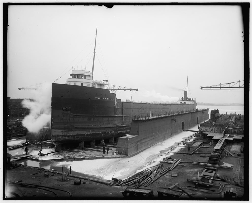 The 551-foot long bulk freighter William P. Snyder in drydock